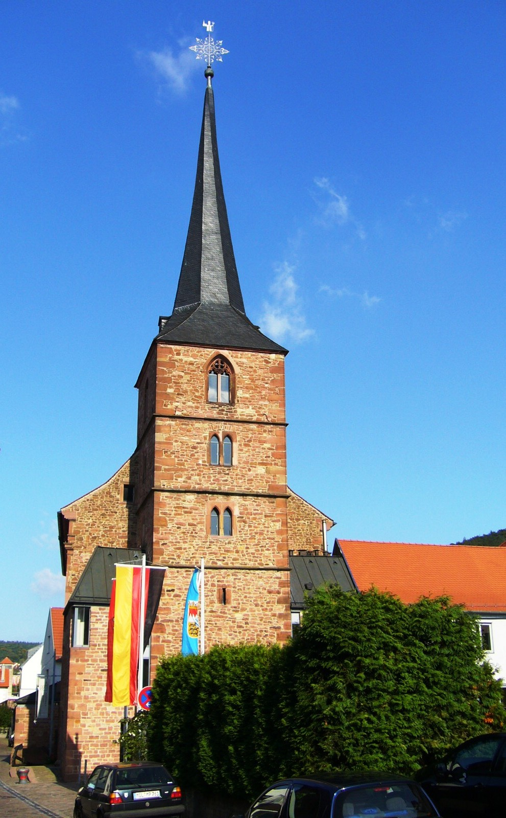 Former church St. Wolfgang in Wörth am Main - Museum for Schipping